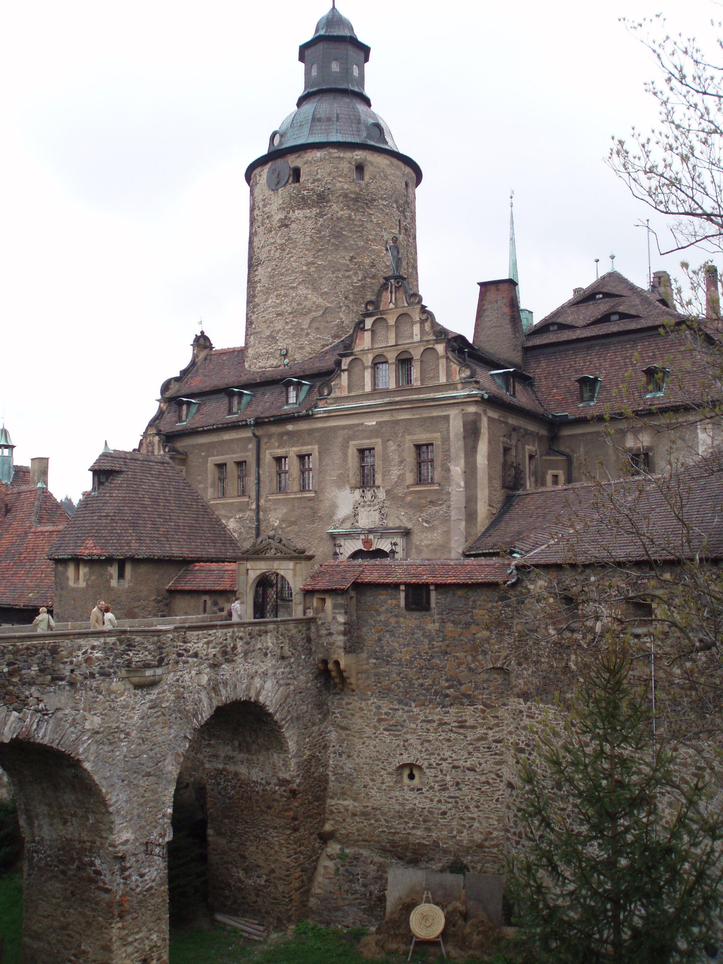 Czocha (Tzschocha)Castle, Lusatia, Poland